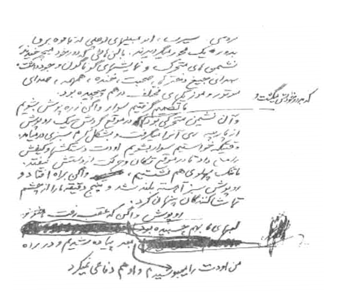 This is Sadeq Hedayat's hand writing of one of part of his short story "Ayeneh Shekasteh" (en: The Broken Mirror) first published in Tehran during the writer's life. Hedayat has died more than 50 years ago and according to Iran's copy right law, all of his works are in public domain now.